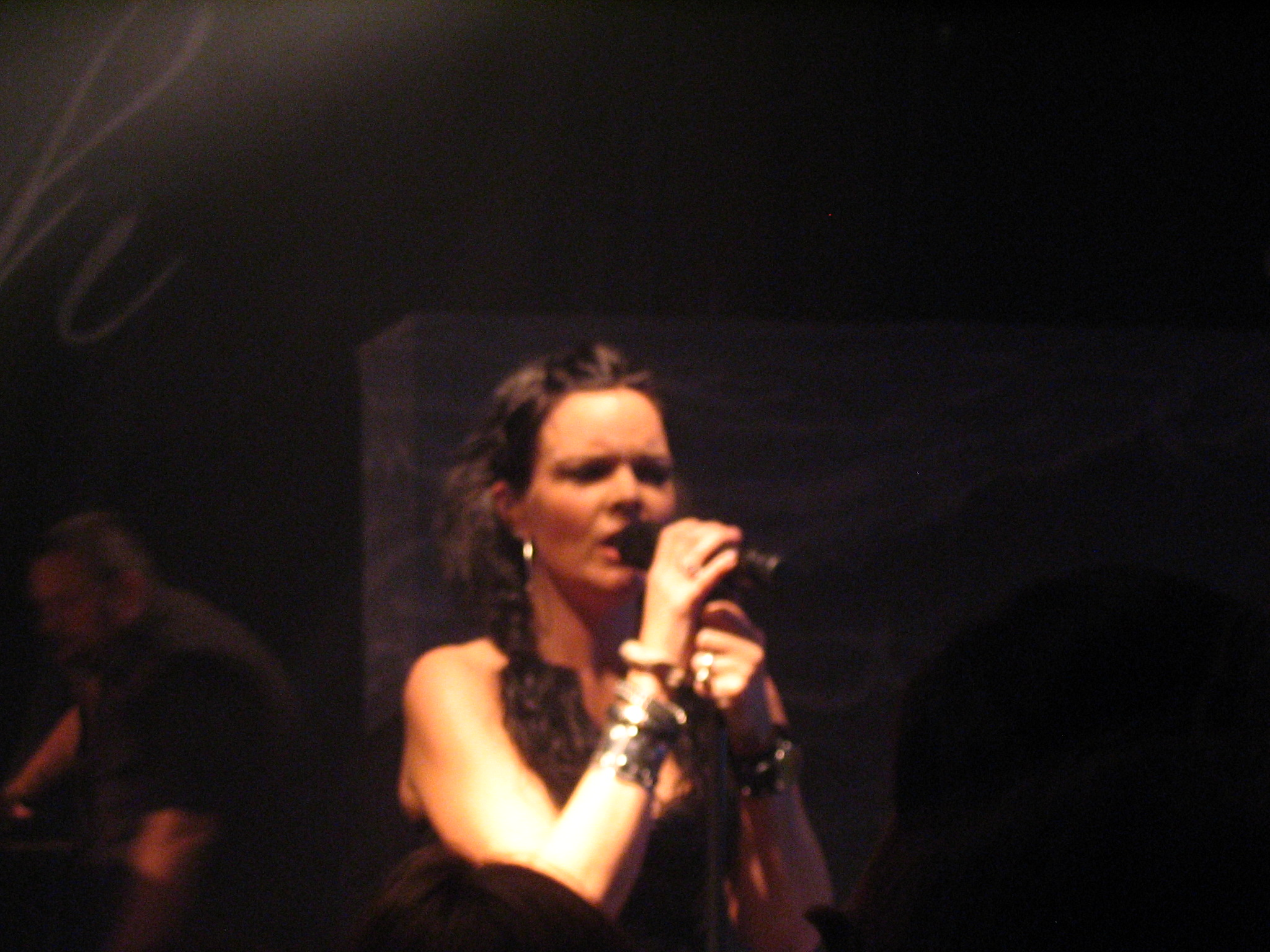 Swedish singer Anette Olzon at Springfield, USA, in JAXX